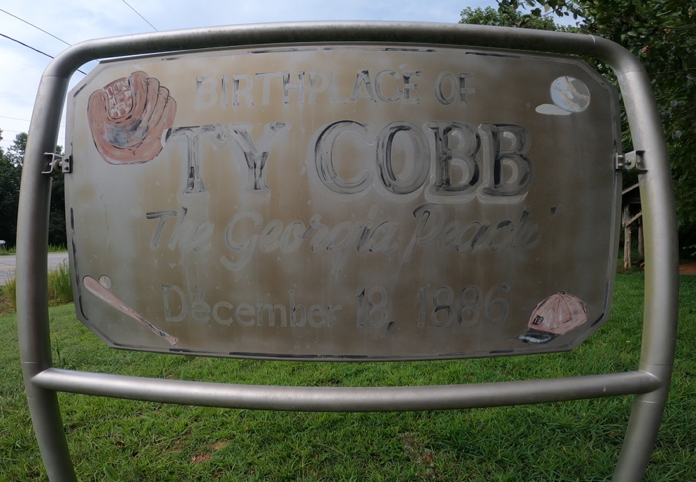 This faded sign shows the birth place of Ty Cobb at the Narrows in Georgia along route 105 about four to five miles southeast of Baldwin, GA.